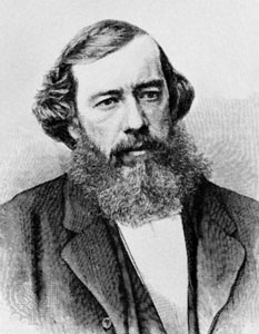 Portrait of Moncure Daniel Conway